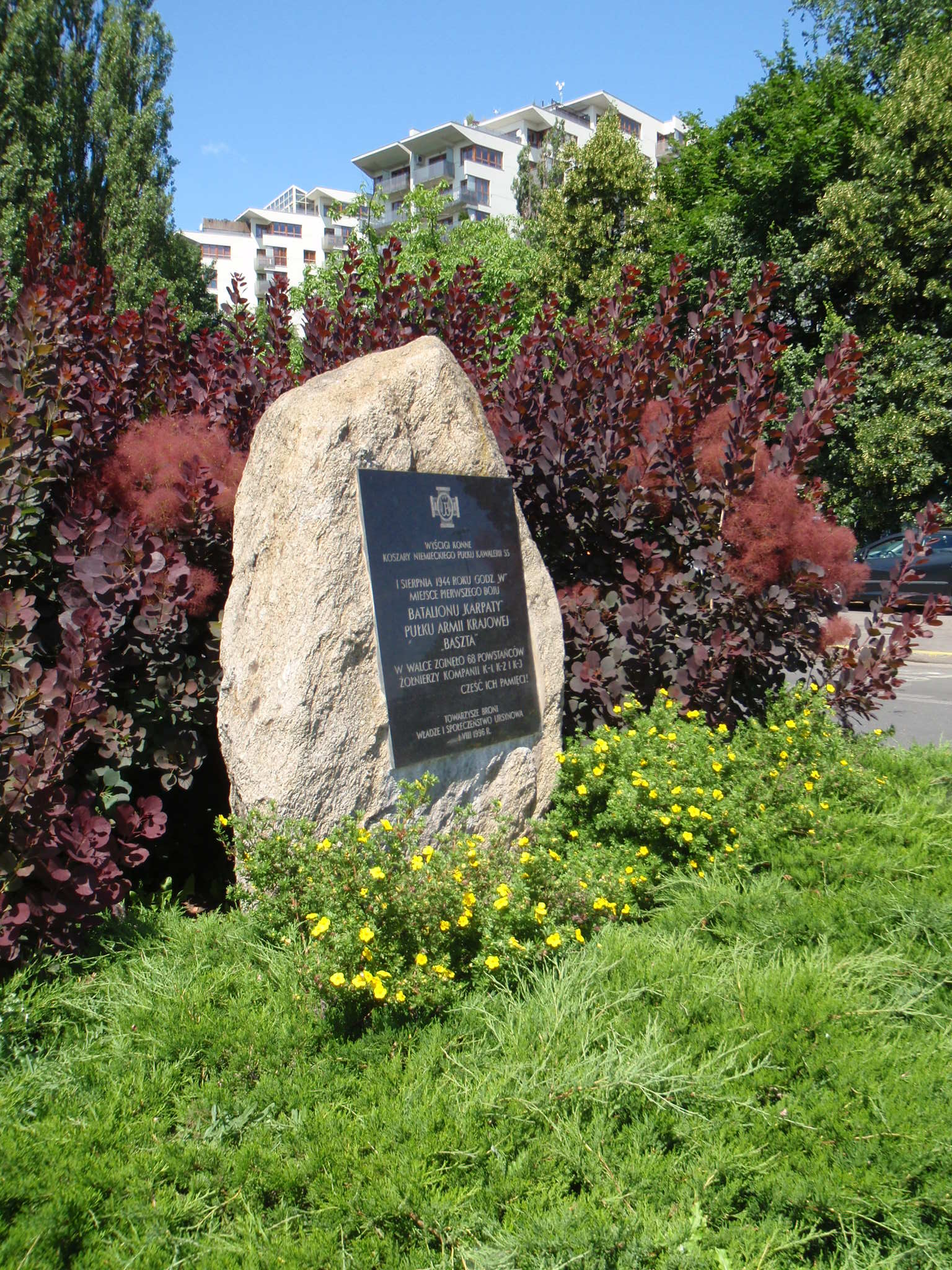 Plaque commemorating fights of "Baszta" Regiment during Warsaw Uprising at Horse racing venue Służewiec